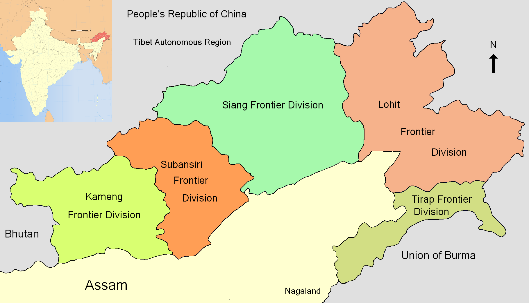 A Locator map of North East Frontier Agency in 1961.